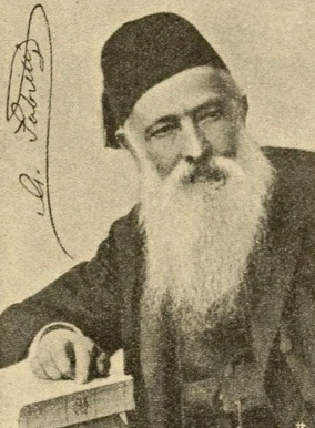 Portrait of the Italian archeologist Ariodante Fabretti. In "Illustri italiani contemporanei" by Onorato Roux (Firenze, 1908)